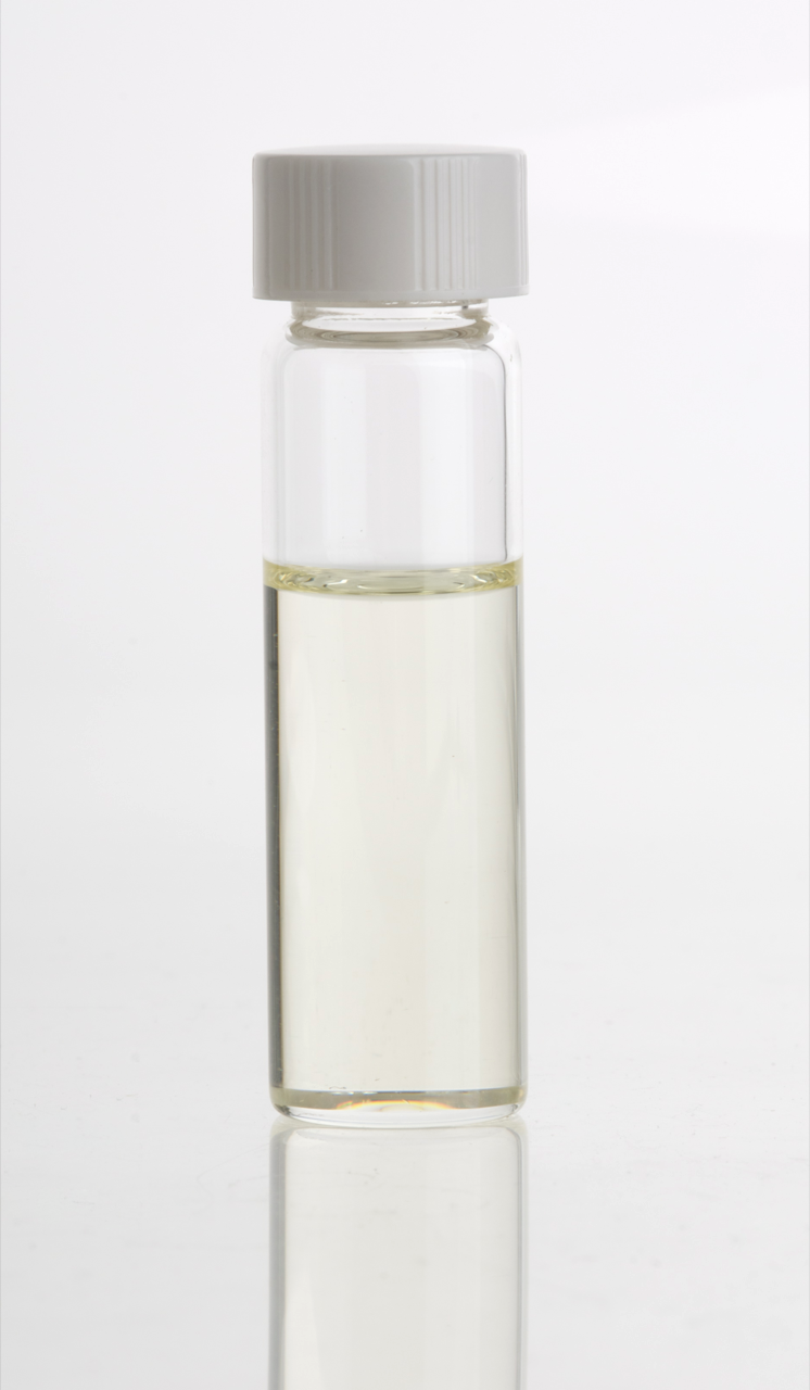 Glass vial containing Coriander (Coriandrum sativum) Essential Oil